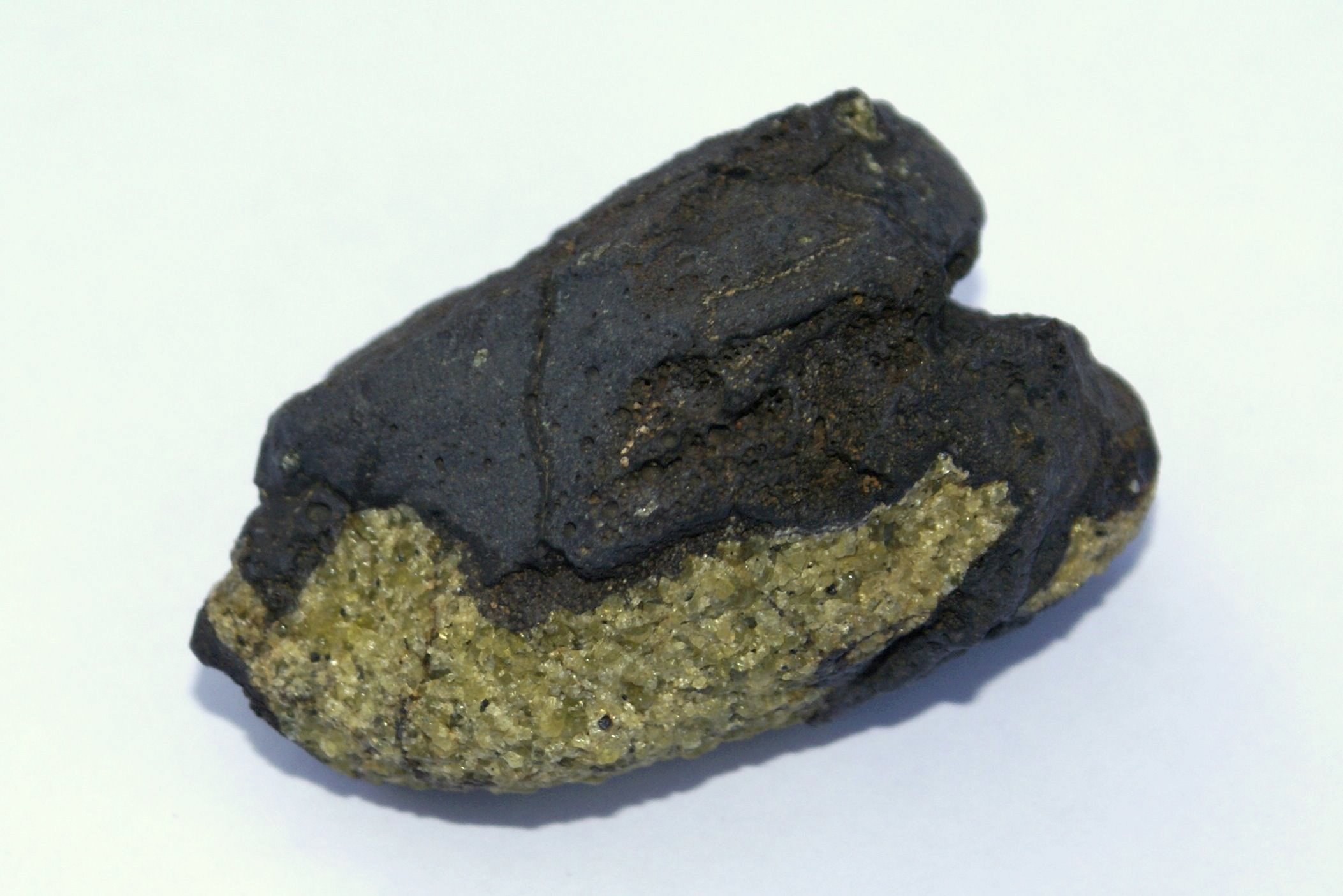 Small volcanic bomb (length about 4 cm) of (black) basanite with (green) included cumulate dunite (made of agglomerated cristals of olivine) , coming from Piton Chisny (Réunion island)